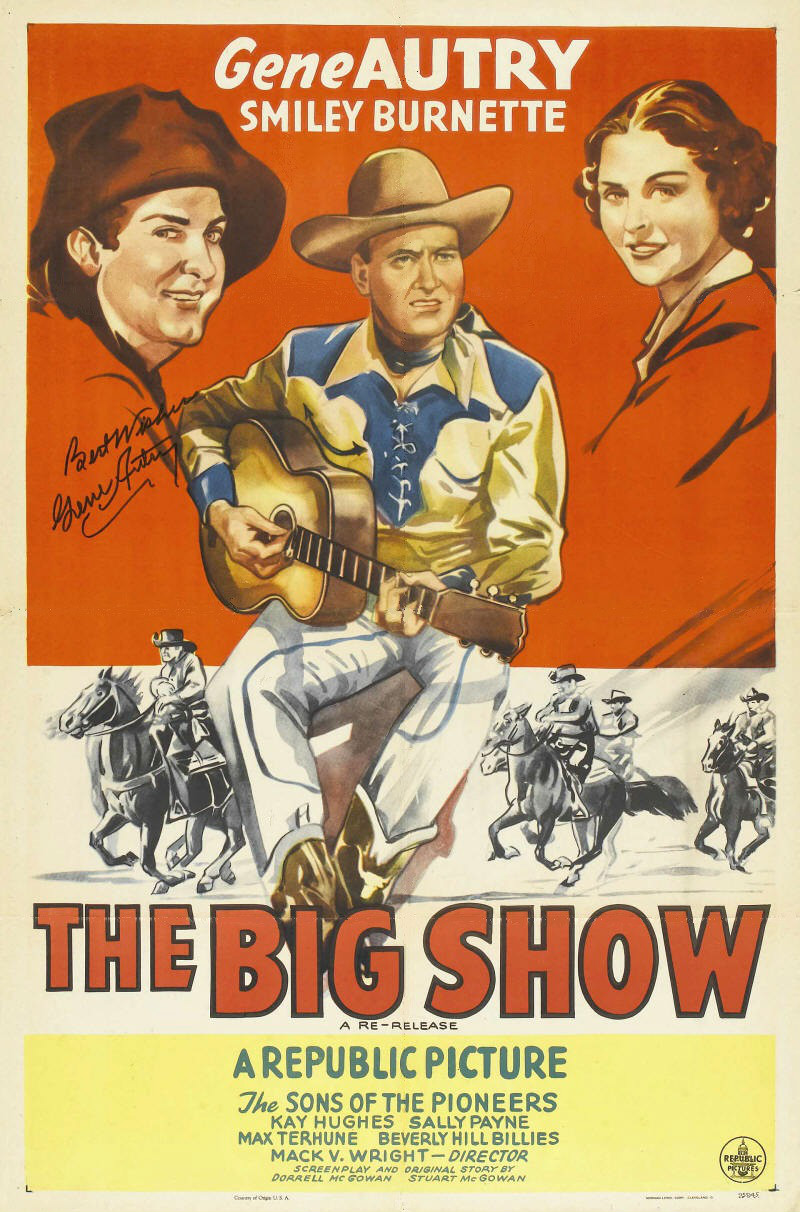 Poster for the 1936 film The Big Show. The item has no copyright marks on it as can be seen at links and original upload. At bottom is Country of origin USA and Morgan Litho Co, Cleveland, O. along with some numbers which probably have to do with the print job for the poster.